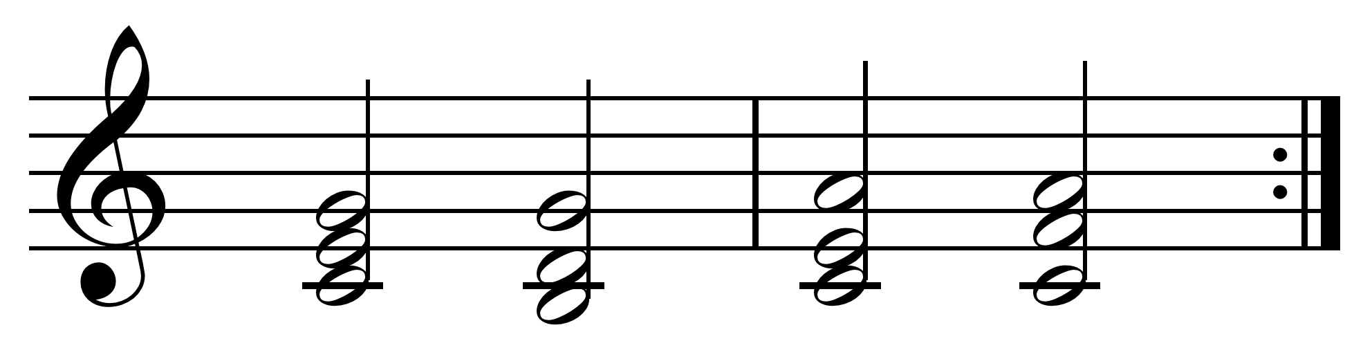 Created by Hyacinth (talk) 23:41, 25 March 2010 using Sibelius 5.